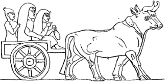 An illustration from the Encyclopaedia Biblica, a 1903 publication which is now in the public domain. Fig. 1 for article "Chariot". Image of an Assyrian Cart, depicted on an Assyrian relief in the British Museum, dating from around the time of Tiglath-pileser III